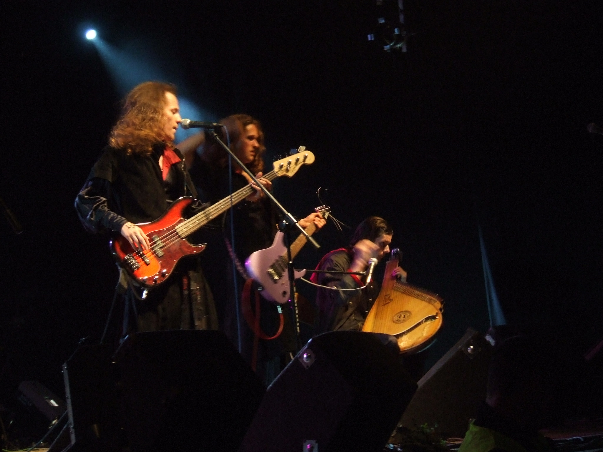 Ukrainian group Tin' Soncya at Basowiszcza 2007 festival.